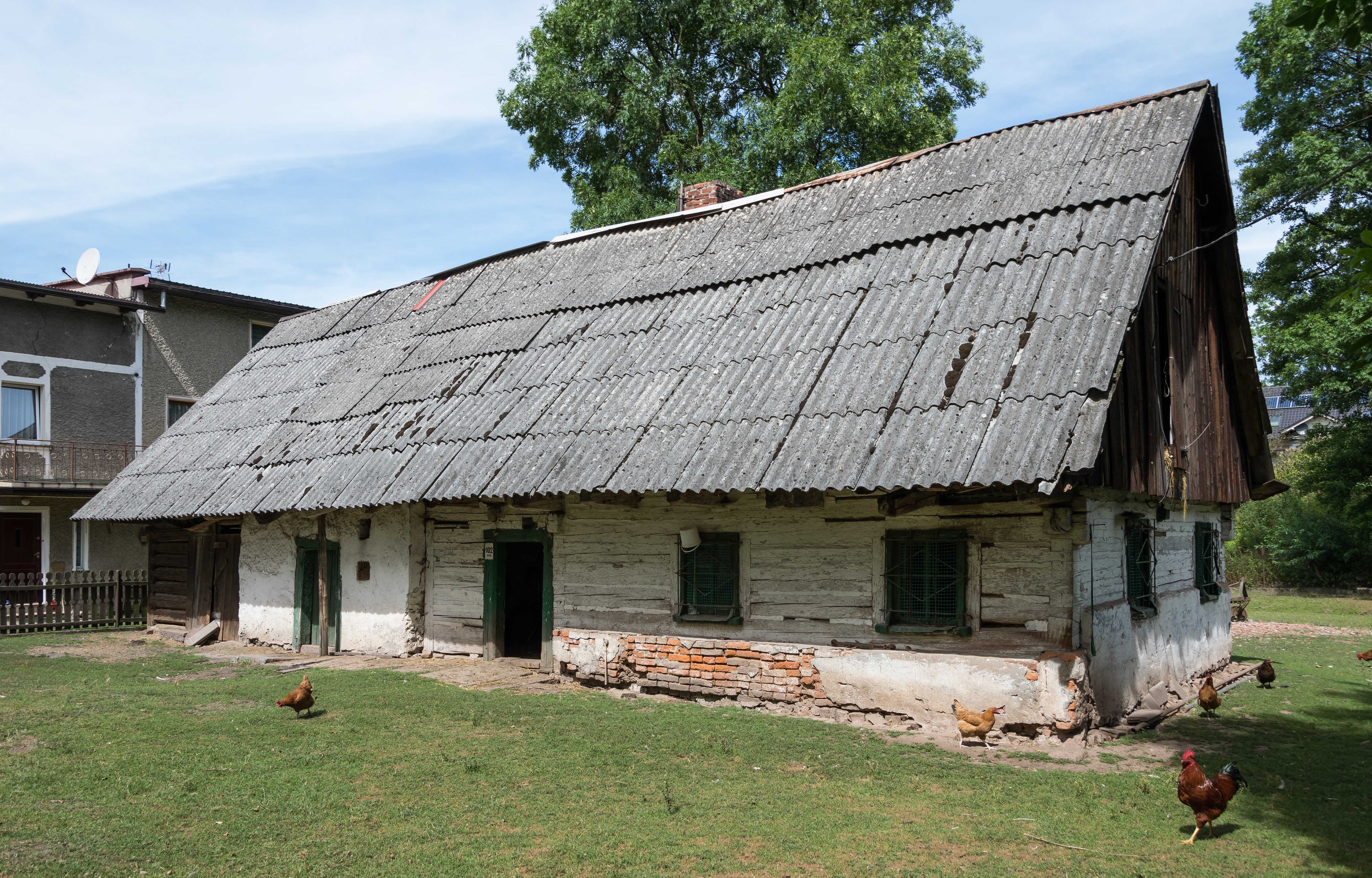 102 Słone Street in Kudowa-Zdrój Wikidata has entry Q30047848 with data related to this item.